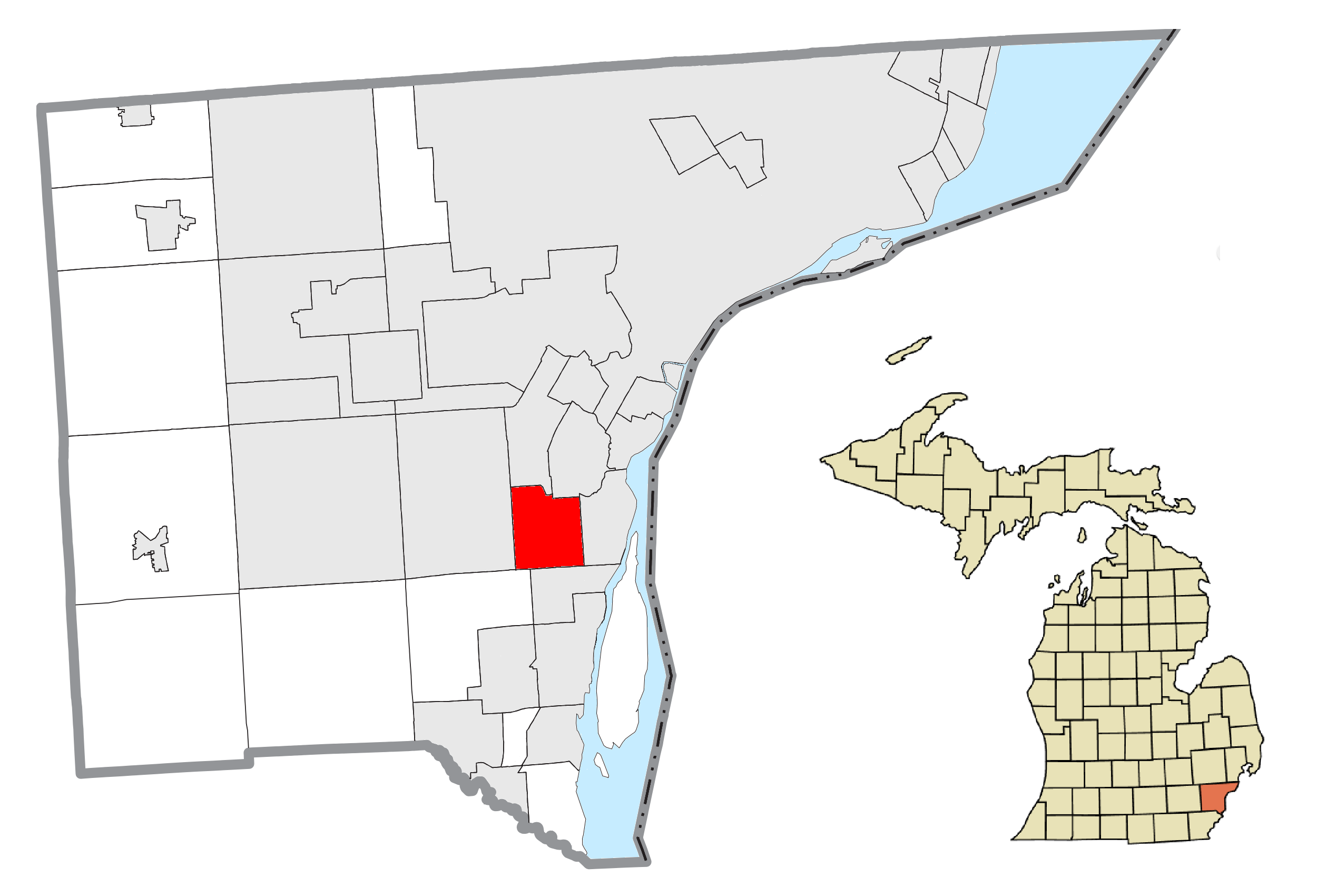 Southgate, MI